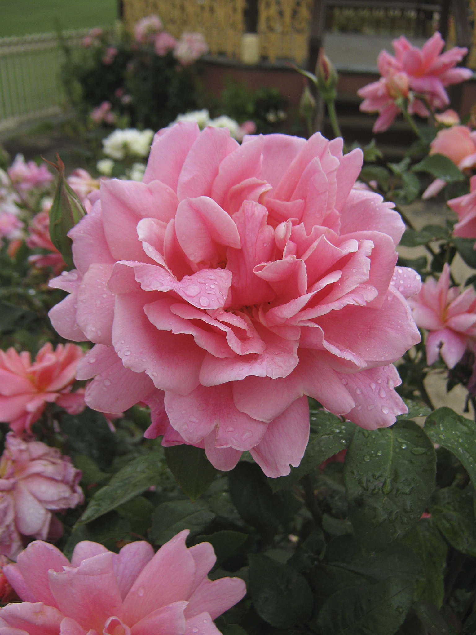 Rose 'Mission Bells', Hybrid Tea by Morris 1949; photographed in the Nieuwesteeg Heritage Rose Garden, Maddingley Park, Bacchus Marsh, Victoria